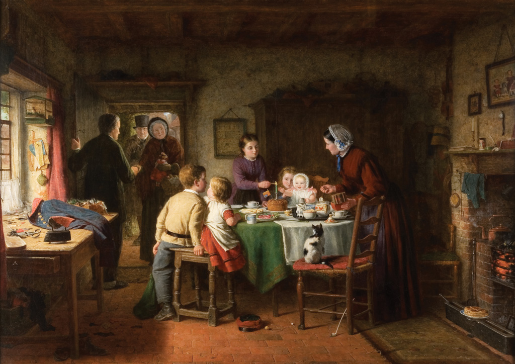 Baby's Birthday by Frederick Daniel Hardy, 1867